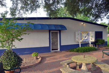 Cenikor Foundation has partnered with Odyssey House Texas to provide treatment to adolscents for substance abuse. The facility is a 60 day residential treatment facility with a capacity to treat 29 individuals.